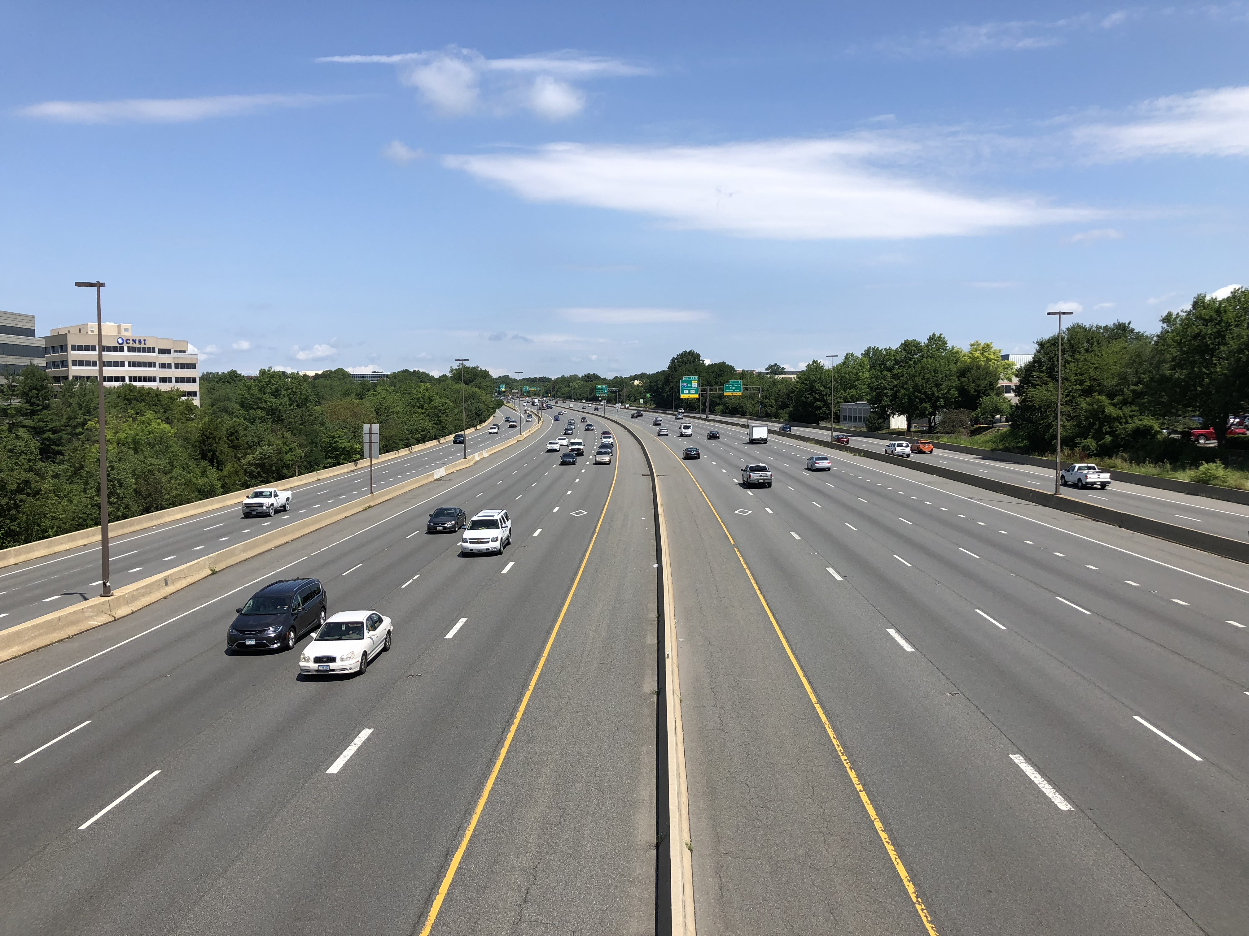 View north along Interstate 270 (Washington National Pike) from the overpass for West Gude Drive in Rockville, Montgomery County, Maryland